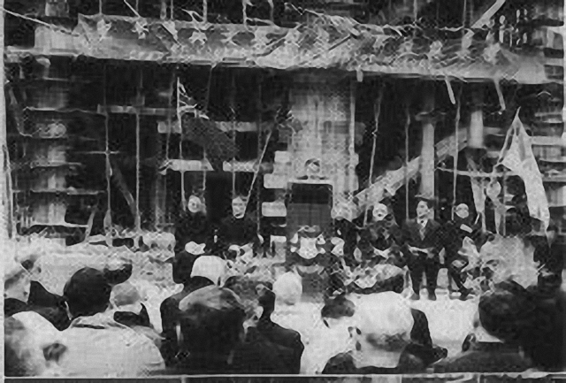 SJACS Old Campus Under Construction, Ceremony 中文（香港）: 聖若瑟英文中學興建中觀塘道前校舍，奠基典禮